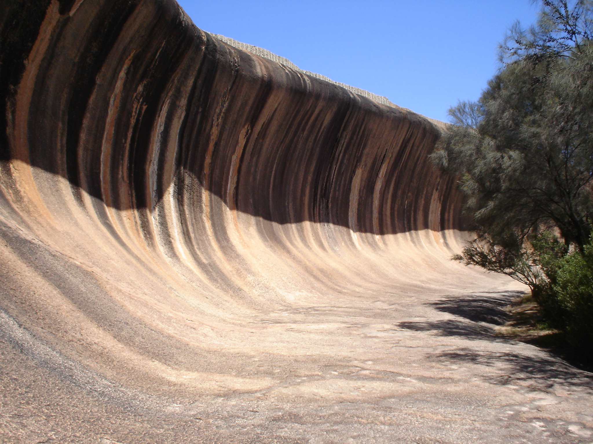 Author: Fredrik Bülow Photo of the Wave rock in Western Australia taken with a Sony Cybershot camera.